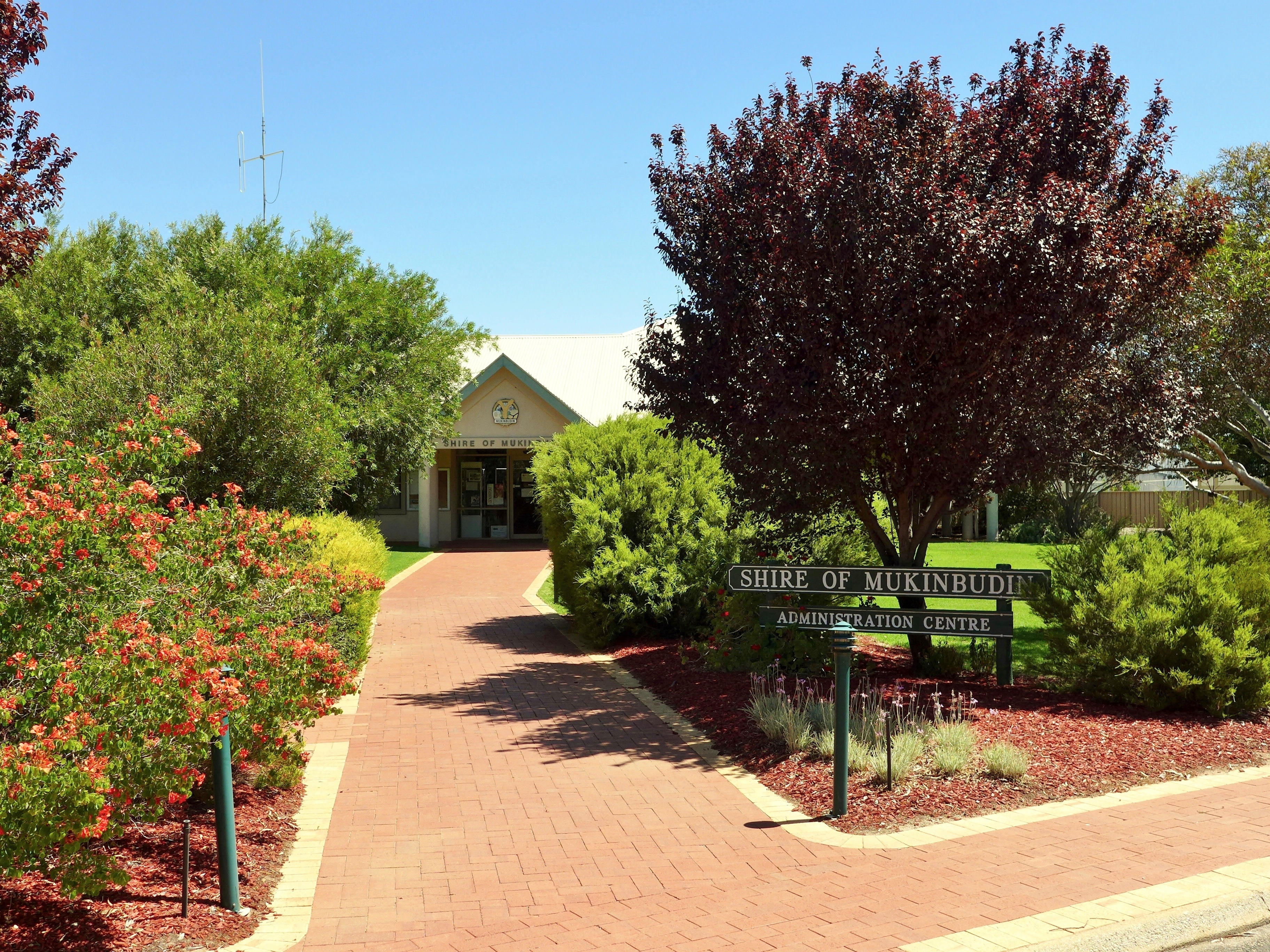 View of the Mukinbudin shire offices, Maddock Street, Mukinbudin, Western Australia.